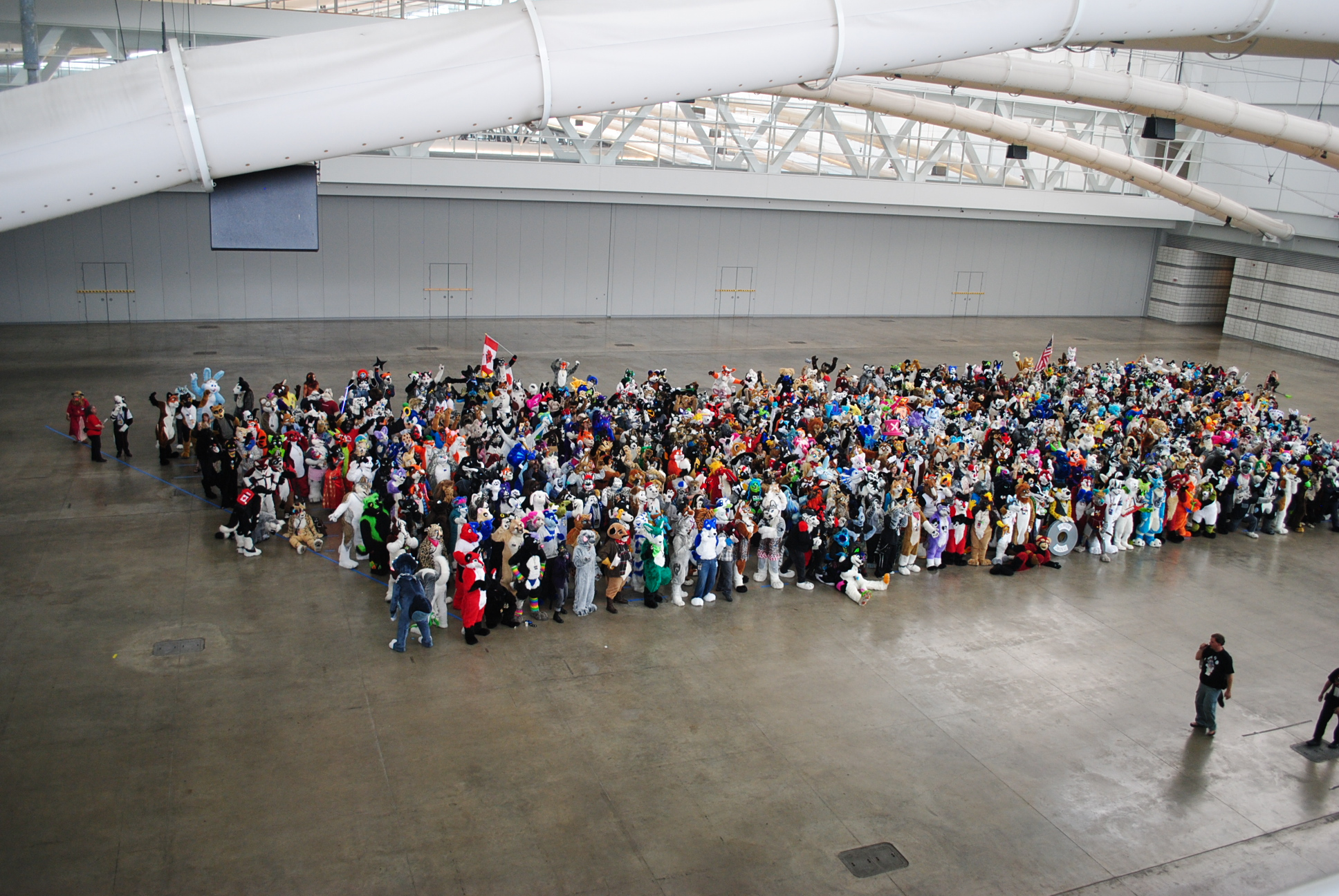 Group Photo